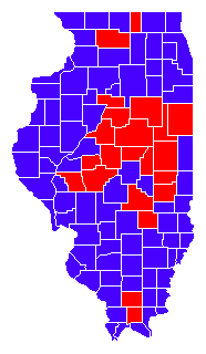 Results by county, 2006, for Secretary of State of Illinois